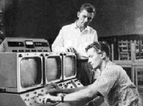 Photograph of the first SCETV broadcast from Dreher High School in 1958